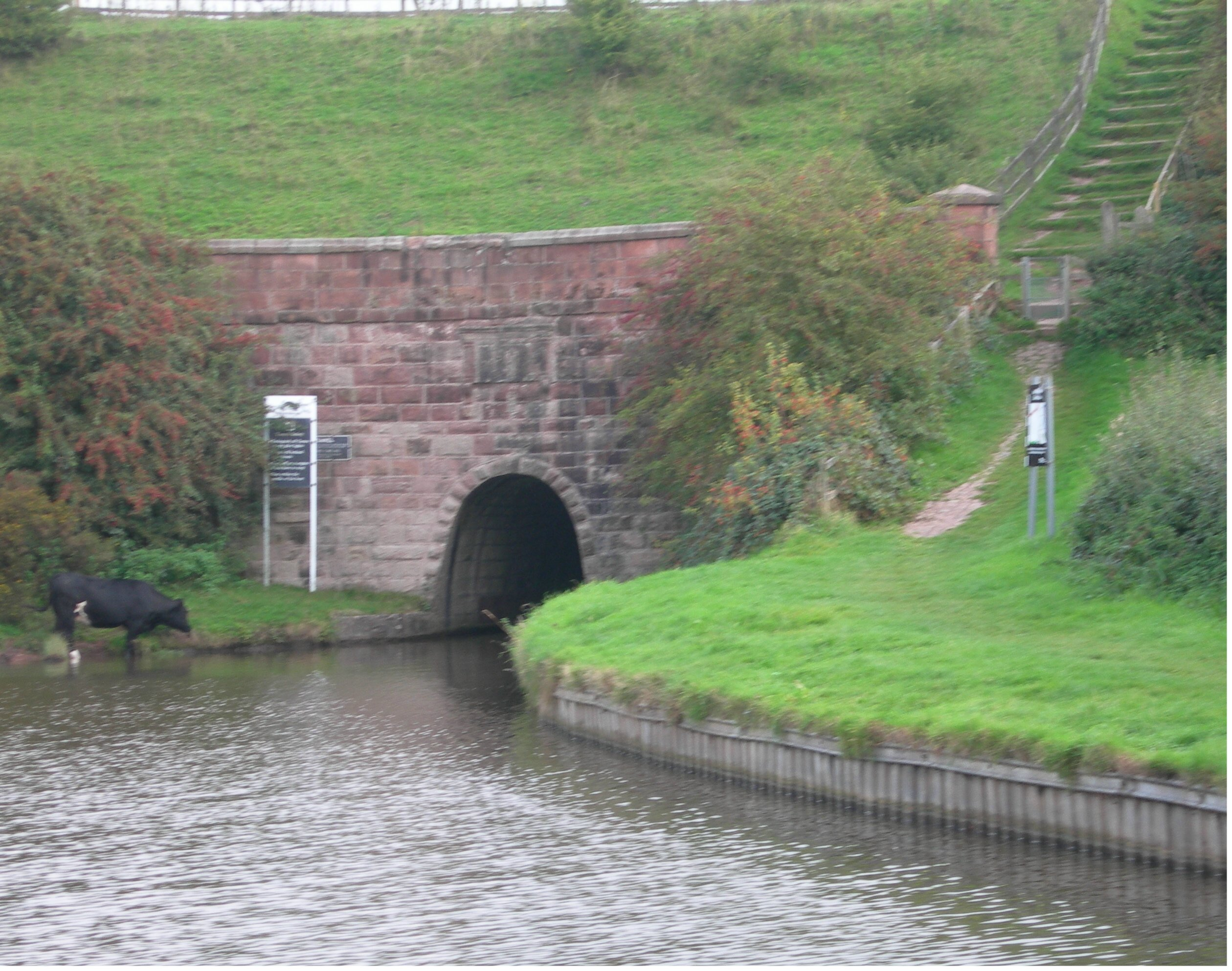 R. Fletcher